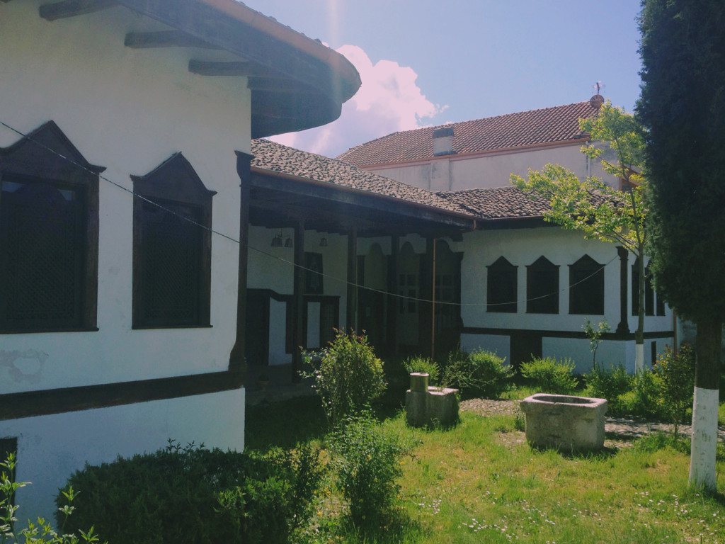 Muzeu Etnografik Kavajë